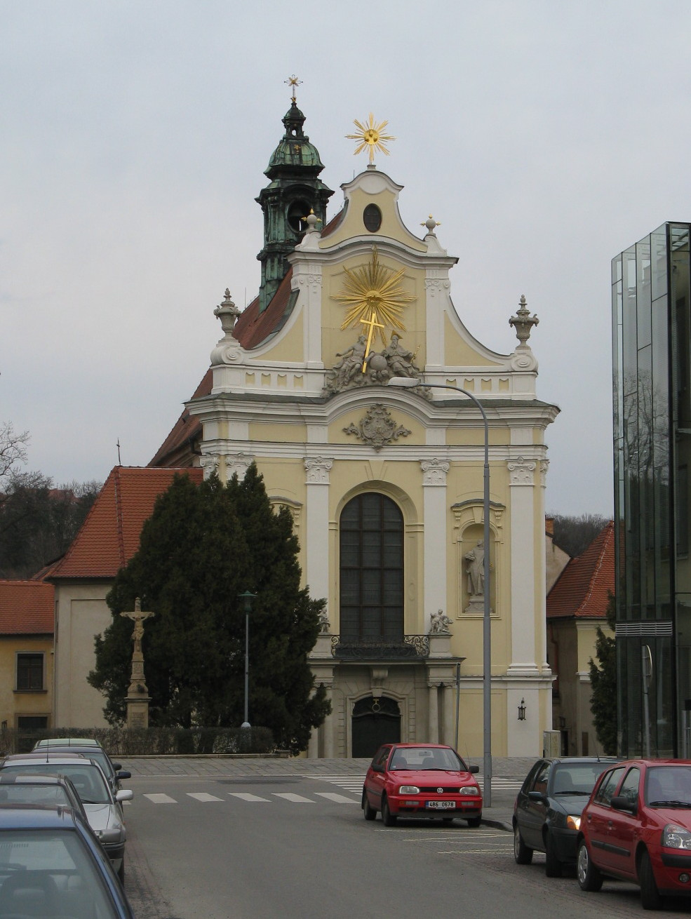 Church of the Holy Trinity (a part of former Charterhouse), Brno, Královo Pole